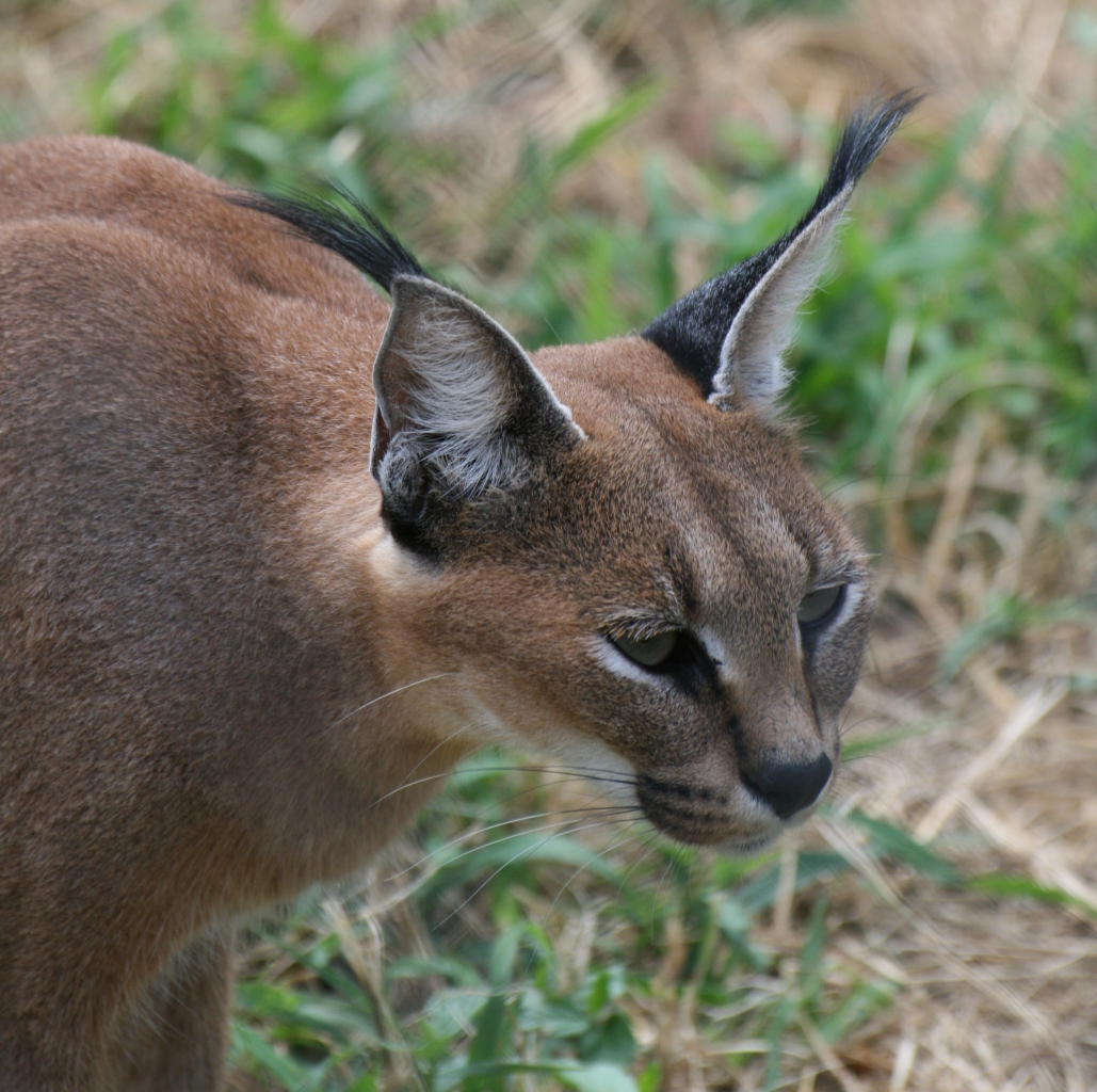 Caracal (Rooikat). Caracal (Rooikat), De Wildt Cheetah and Wildlife Sanctuary, Bojanala, South Africa.